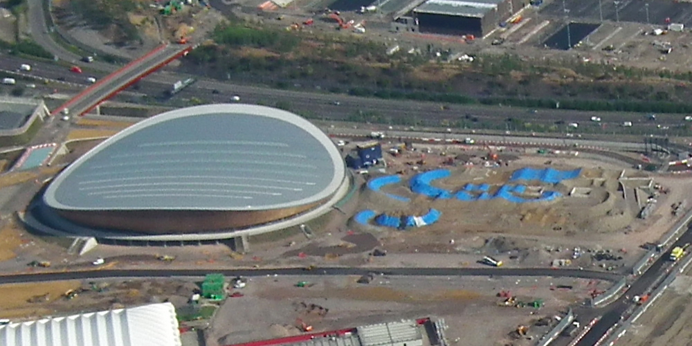 June 2011 - Aerial photo of the Olympic village and basketball venue and velodrome in the background.